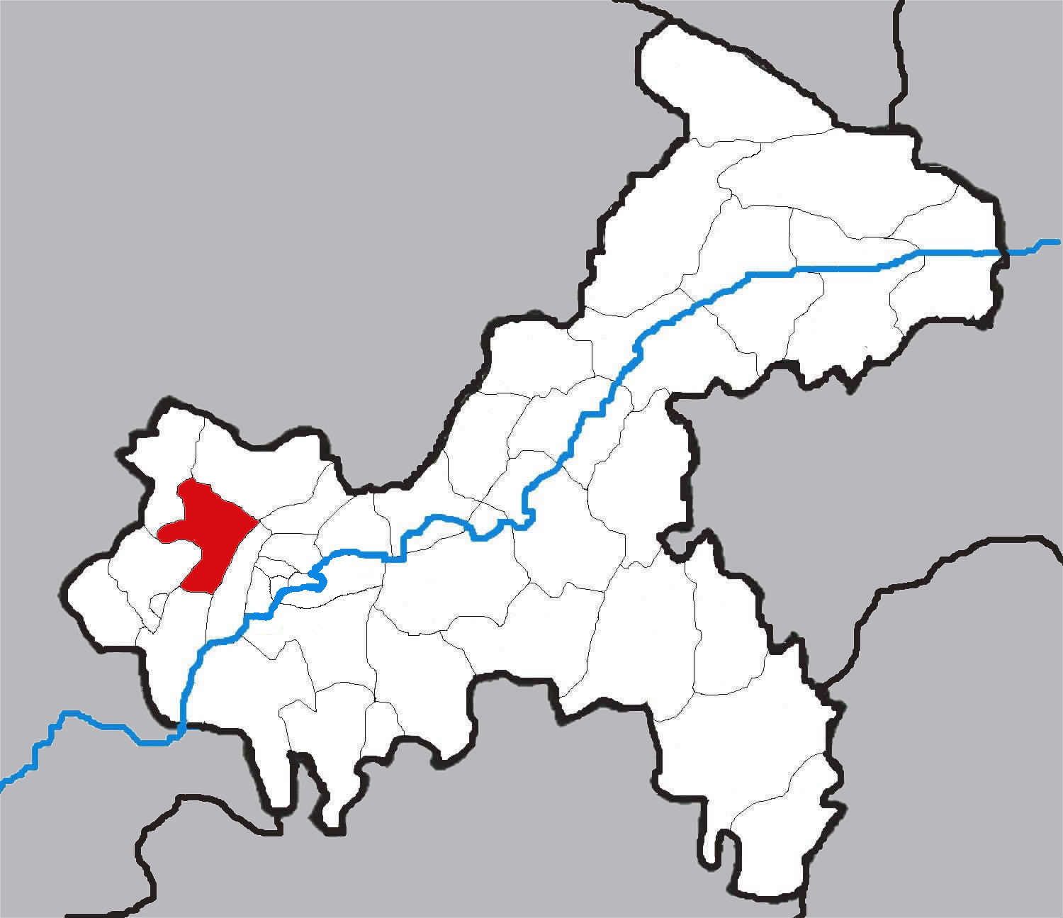 Administration maps of Chongqing, China